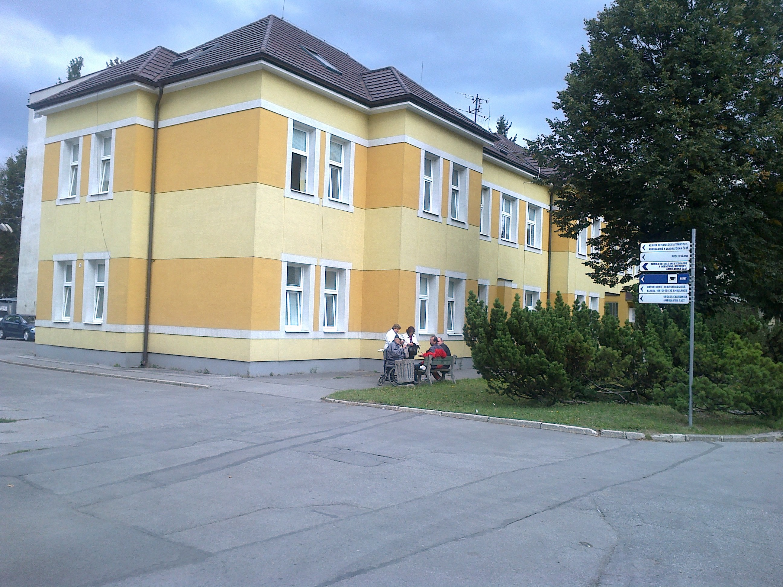 Department of Stomatology at Martin University Hospital